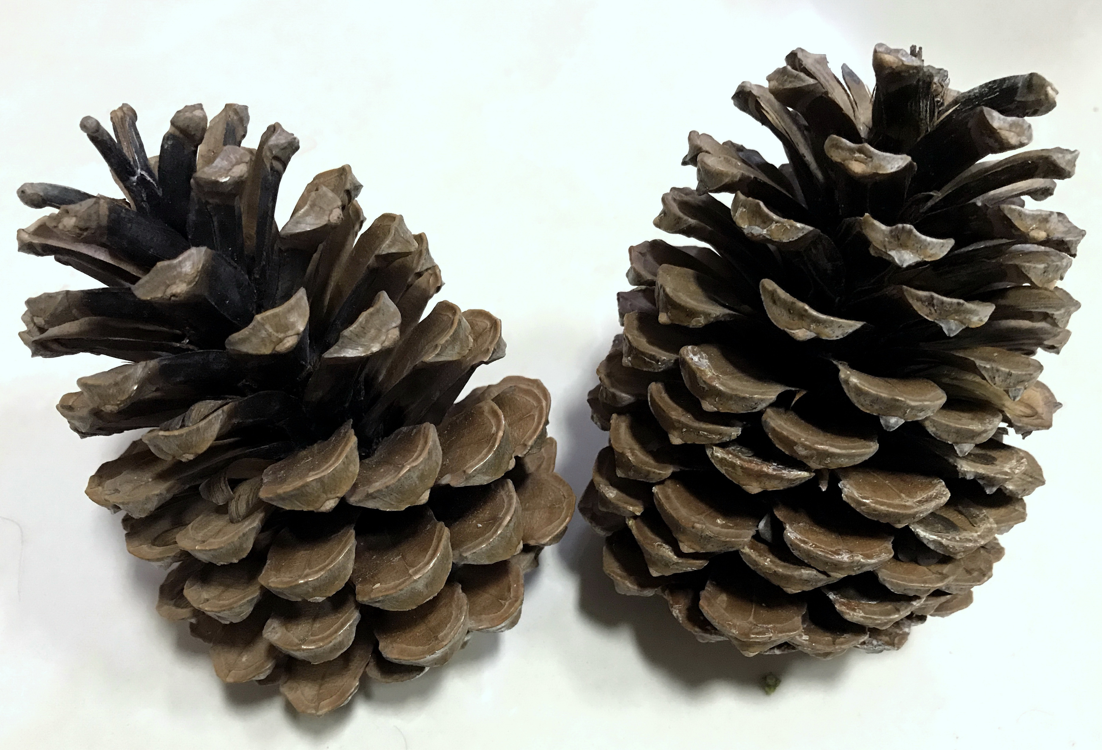 Pine cone from Çamlıca Hill - Istanbul - Aug 2017 مخروط صنوبر من "تشامليجا" باسطنبول، تركيا